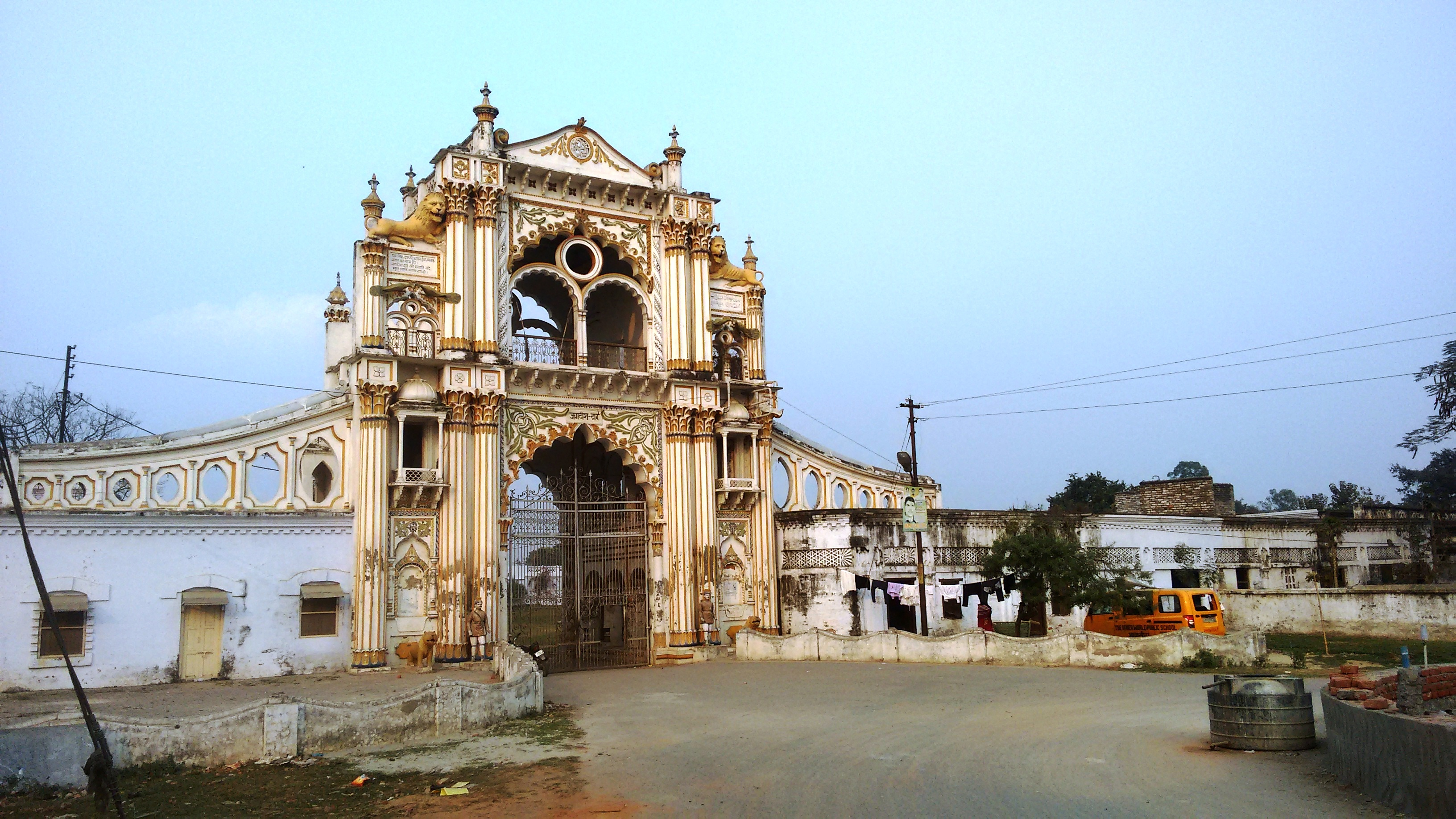 Padrauna Palace Inside the main gate is the residence of the earstwhile kingdom of Padrauna. The latest in the line is Mr R P N Singh who was a member of parliament from the congress party. Inside the gate is also the landed property of the kingdom clan.